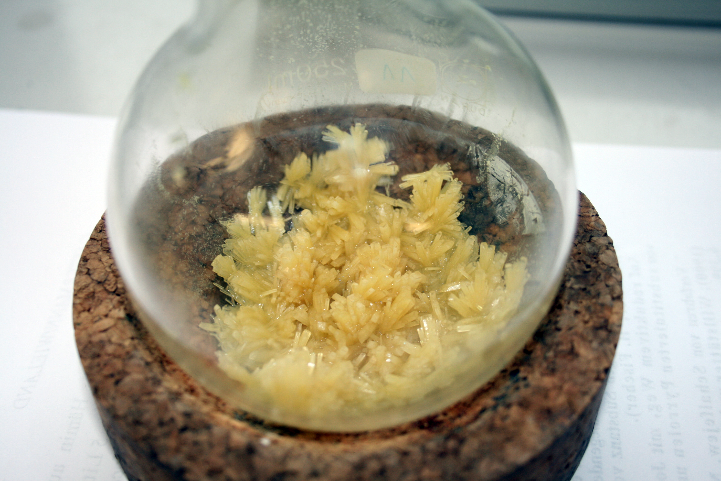 picture of piperine crystals extracted from black pepper (Piper nigrum)- recrystallized out of acetone